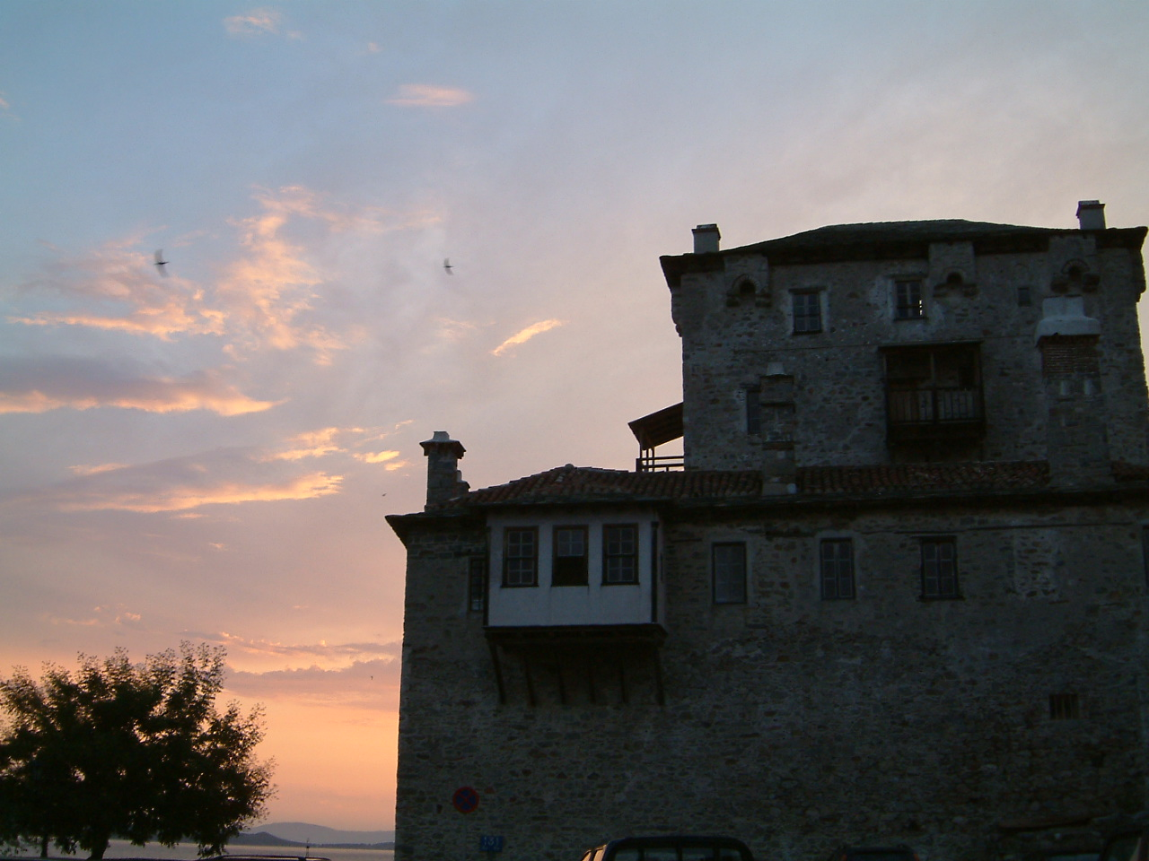 Description: Byzantine tower in Ouranoupolis (evening shot) Creator: Myself (Christaras A) Date: 2003-08-13 Remarks: Photography was not restricted by any implicit and explicit means.